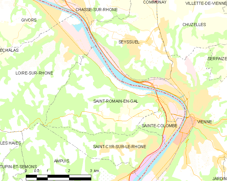 Map of French municipality